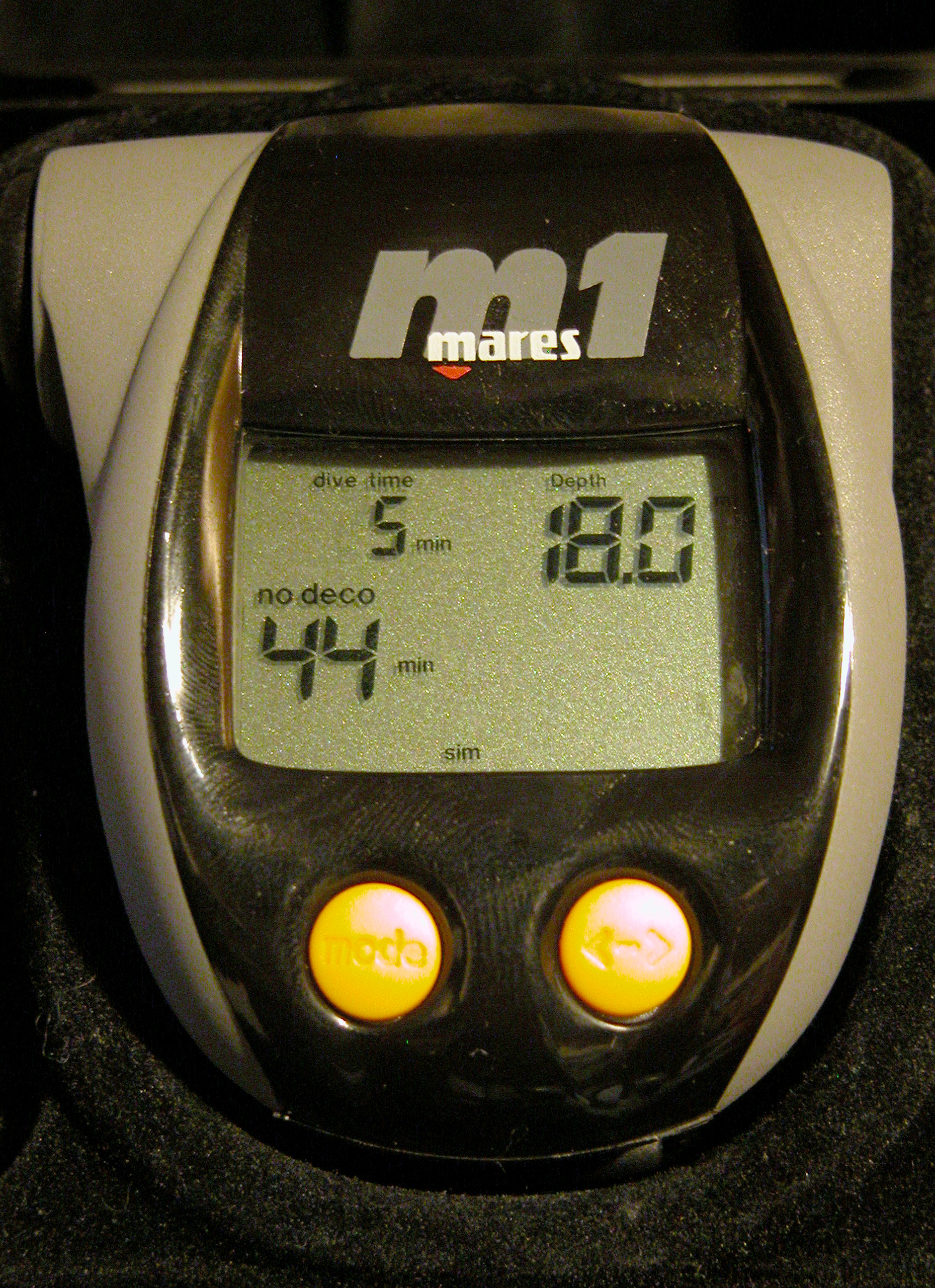 Mares M1 diving computer, showing simulated data.